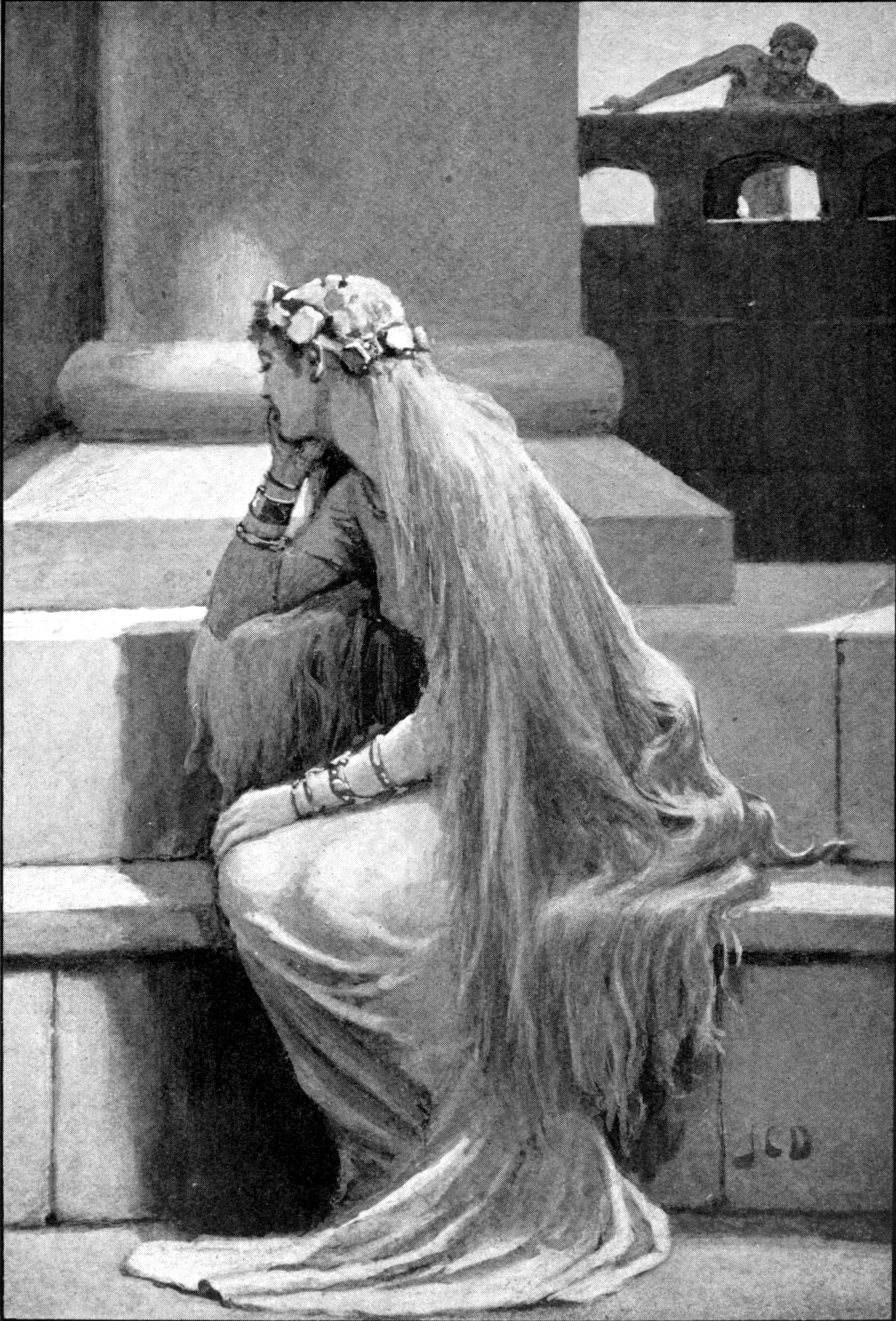 Sif (the title given to the work in the list of illustrations on page vii). The subheading of the work on the page it is one labels it "Sif and Thor". If not for that one would assume that the figure in the background is Loki, approaching to cut Sif's hair off. Perhaps that was the artist's intention and the label is a mistake. There is a 1995 color illustration by Nick Beale, clearly based on this one.